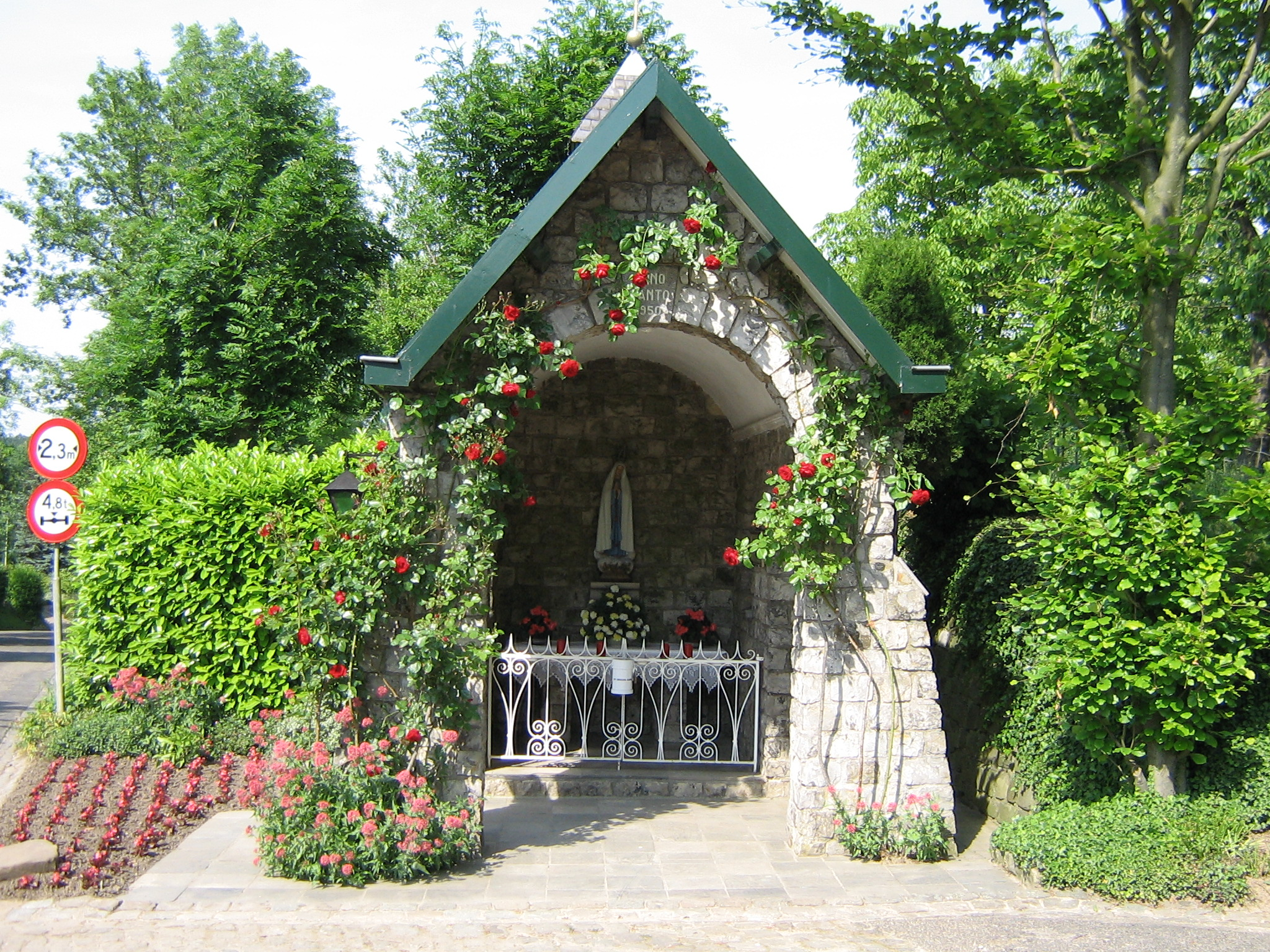 Cadier en Keer, Margraten community, Netherlands: chapel